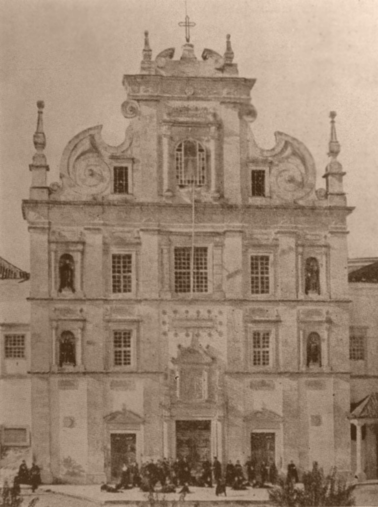 Cathedral-Basilica of Santarém - Portugal.